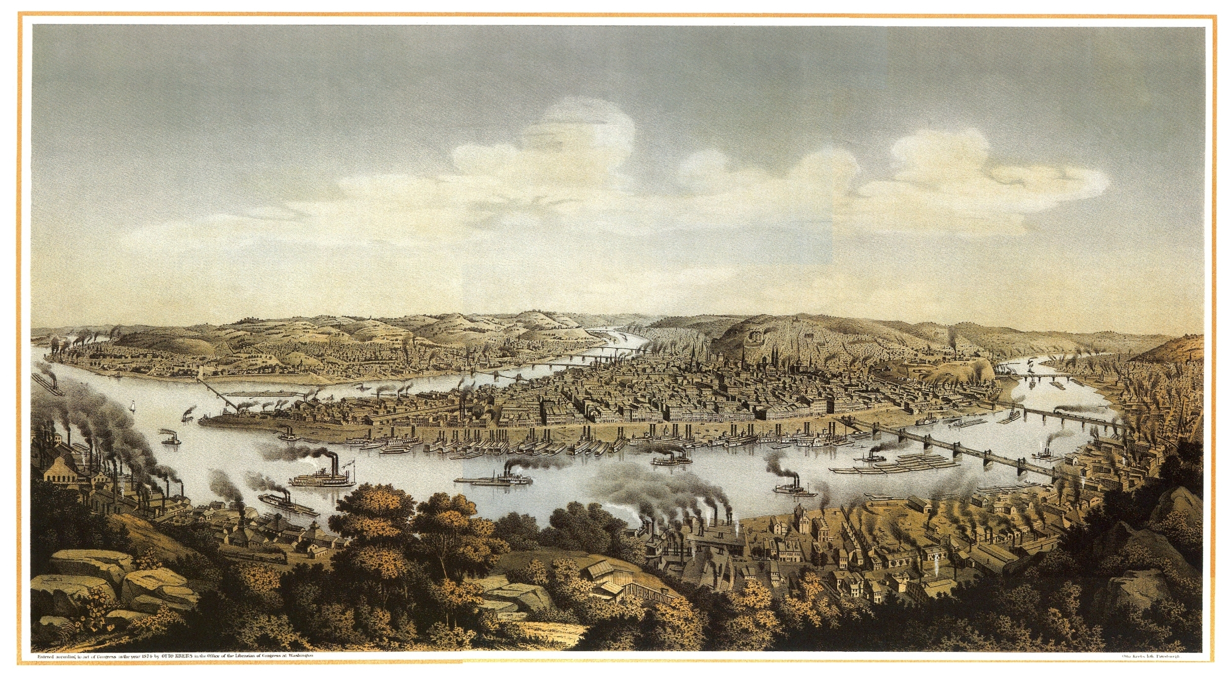 Lithograph showing bird's-eye view of the city of Pittsburgh, Pennsylvania from Mt. Washington. Shown are the Monongahela and the Allegheny Rivers; Birmingham is in the right foreground and Allegheny City is in the distance on the left. Numerous bridges, steamboats, factories.